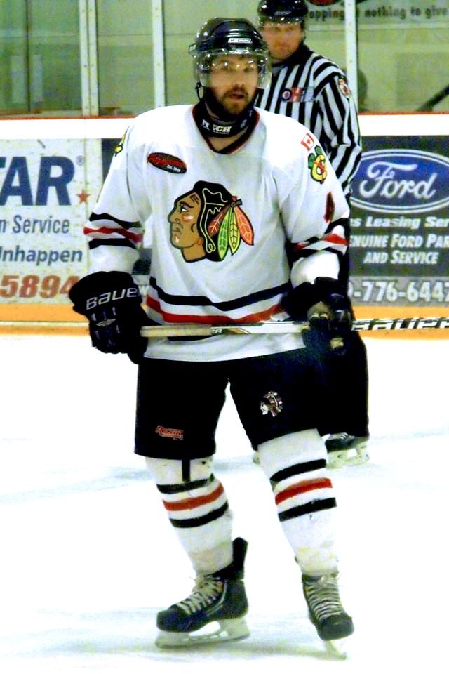 These images of OHA Jr. C action during the 2013-14 season are taken by Devan Mighton.